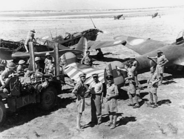 Australian troops with captured Morane-Saulnier MS.406 fighters and a Potez 630 bomber, Syria, in July 1941.